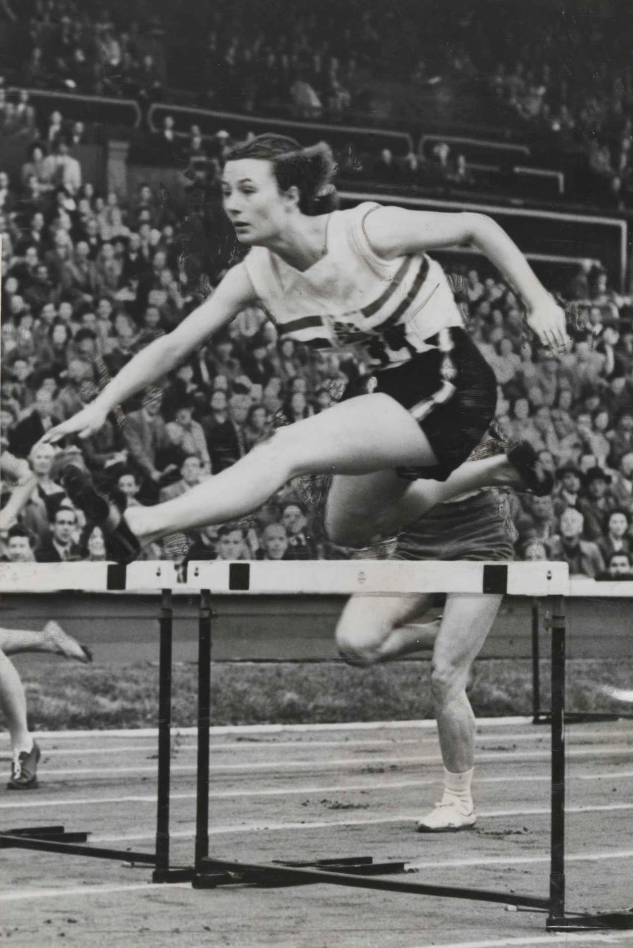 Maureen Gardner (1928-1974) won the silver medal in the 80m Hurdles event at the 1948 Olympics. She narrowly lost out to Fanny Blankers-Koen of the Netherlands by 0.05 seconds. Daily Herald Archive at the National Media Museum We're happy for you to share this digital image within the spirit of The Commons. Certain restrictions on high quality reproductions of the original physical version of apply though; if you're unsure please visit the National Media Museum website. For obtaining reproductions of selected images please go to the Science and Society Picture Library.